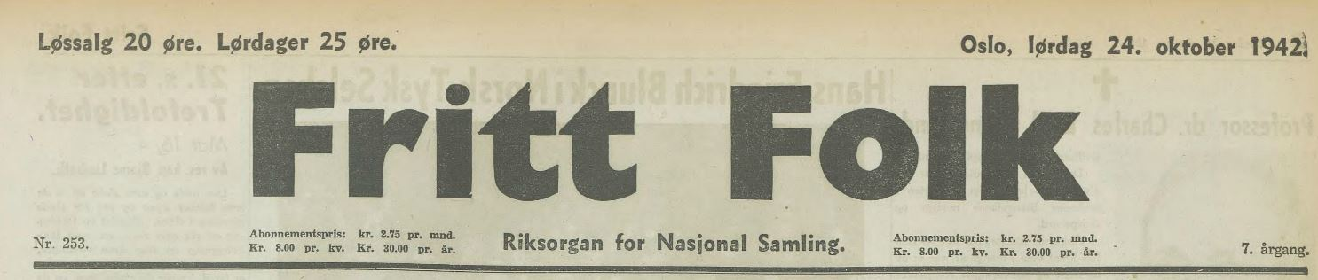 Heading of "Fritt Folk", the main newspaper for Nasjonal Samling, Norwegian nazi party 1933–1945.